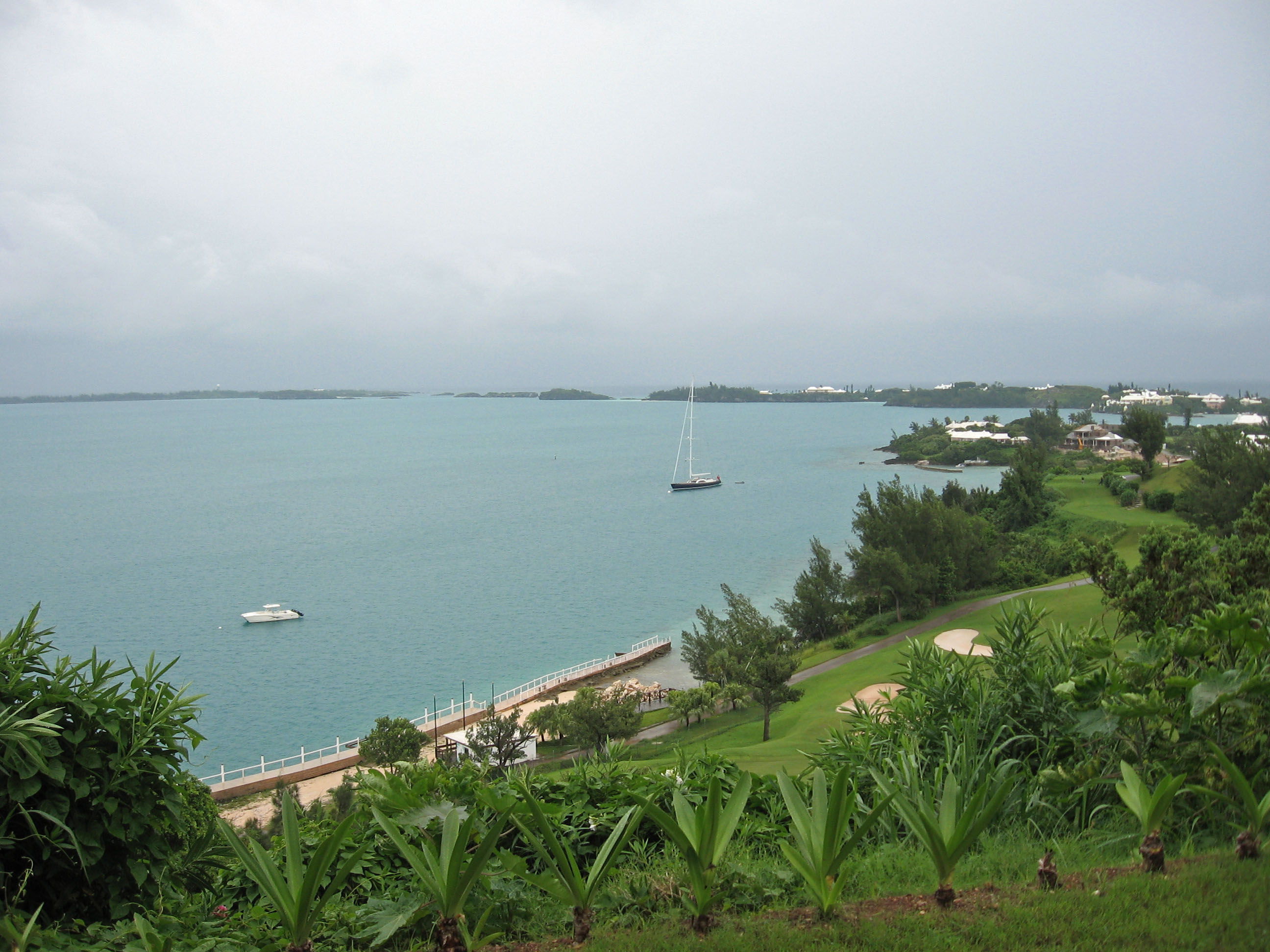 Author:SeanMD80; Castle Harbour in Bermuda